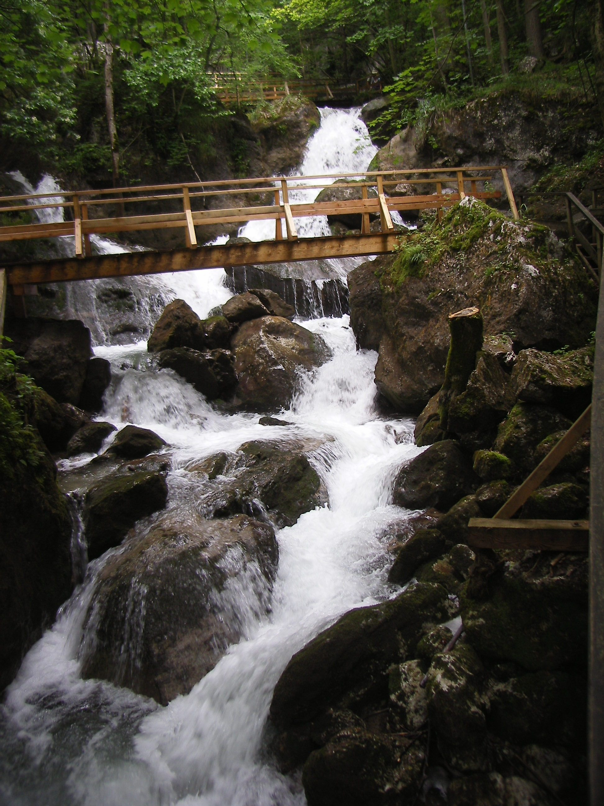 Steps to the Myra Waterfalls